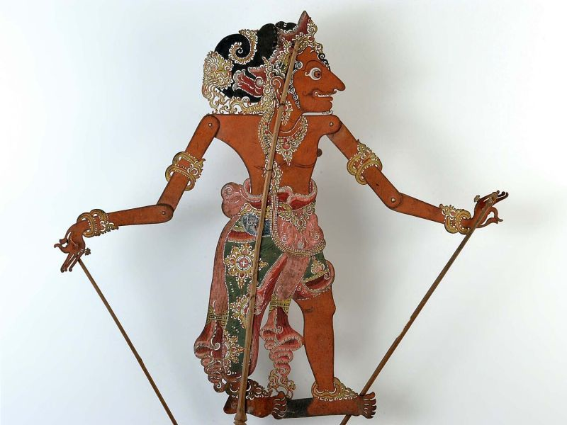 Wayang kulit figure, representing Dursasana